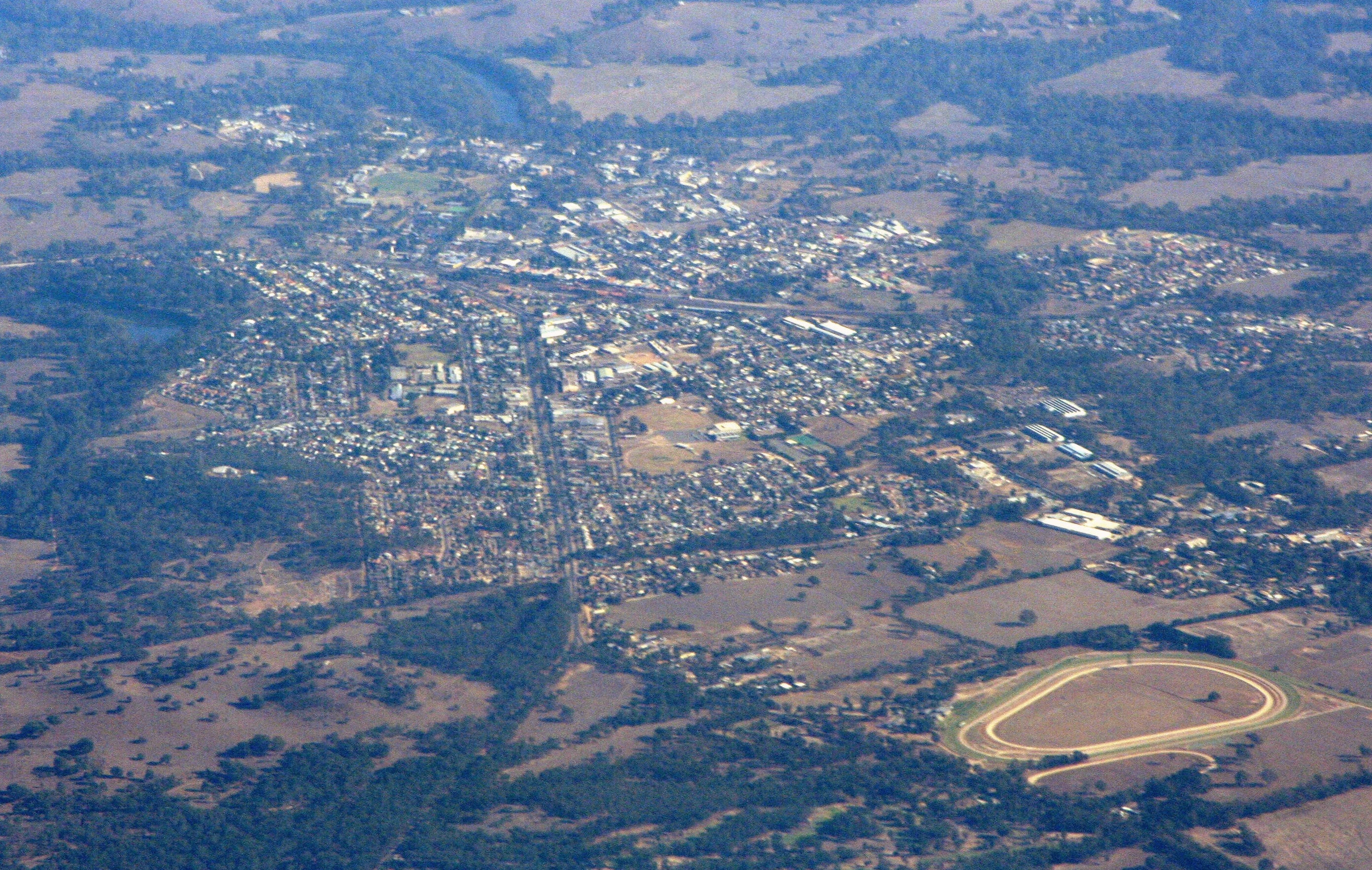 Overview of Seymour, Victoria